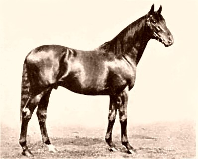 Gainsborough, b.h. 1915. By Bayardo from Rosedrop by St Frusquin. He was a winner of the English Triple Crown.